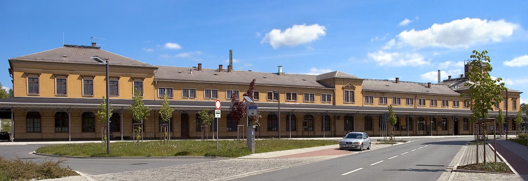 This image shows the railway station in Reichenbach (Saxony, Germany).